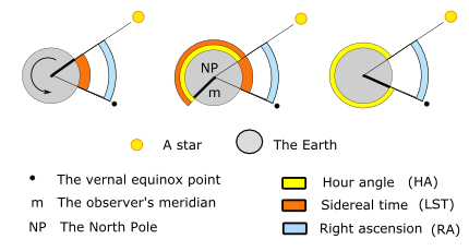 AUTHOR: Francisco Javier Blanco González COUNTRY: España -Kingdom of Spain- IMAGE: the right ascension Image made by Inkscape (to .PNG)